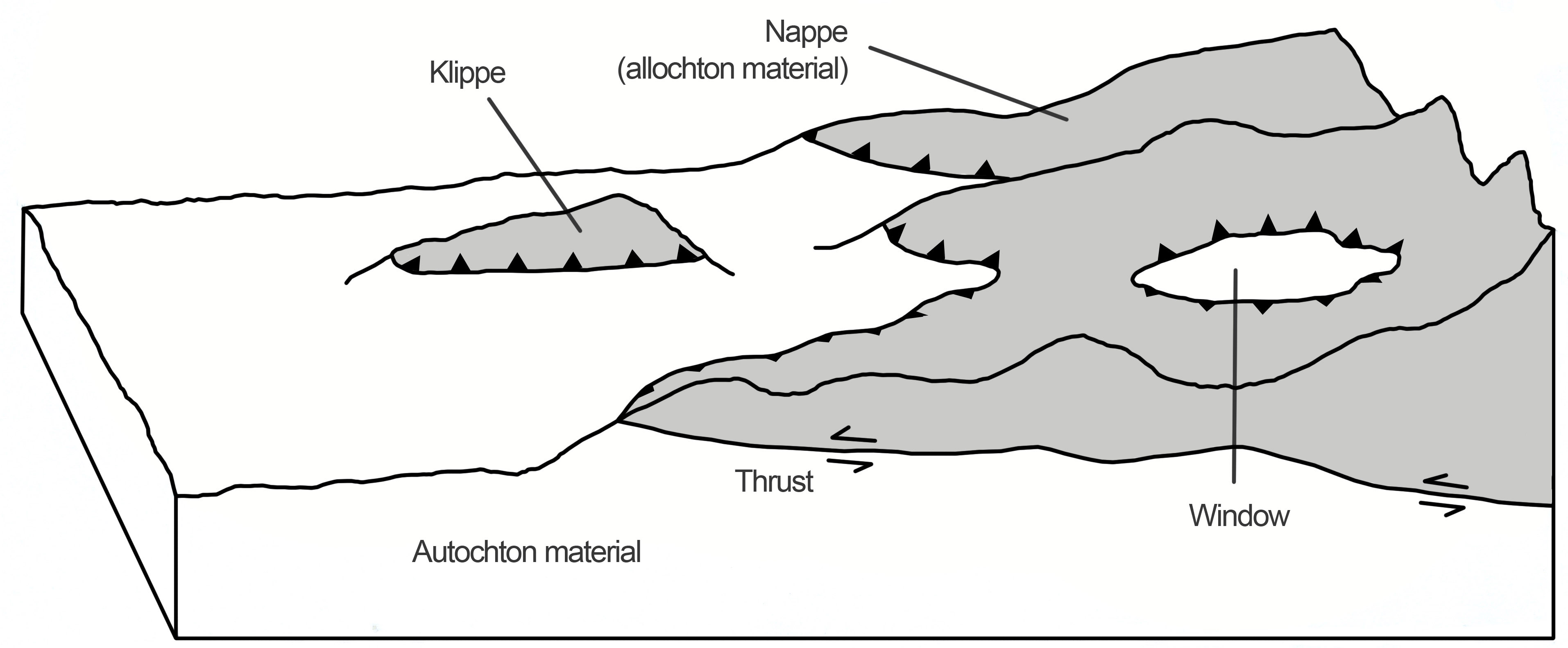 Drew this myself. This is a schematic overview of the terminology used by geologists at a outcropping thrust fault. society